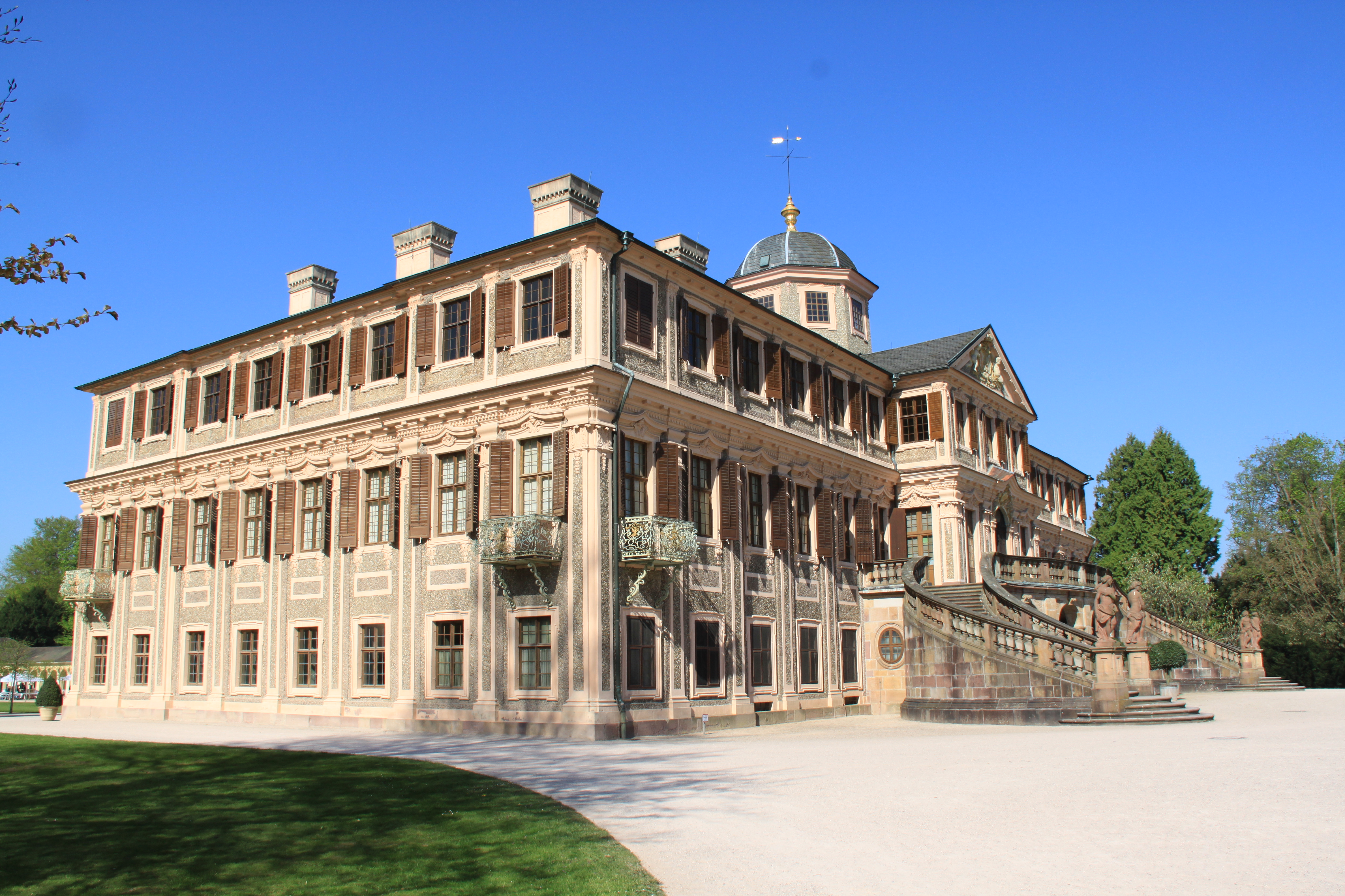 Rastatt, castle Favorite